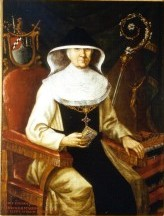 Juliana Maier, last princess-abbess of Rottenmünster